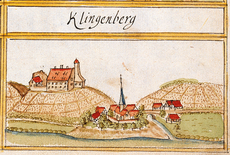 View of Klingenberg from the forest register books created by Andreas Kieser